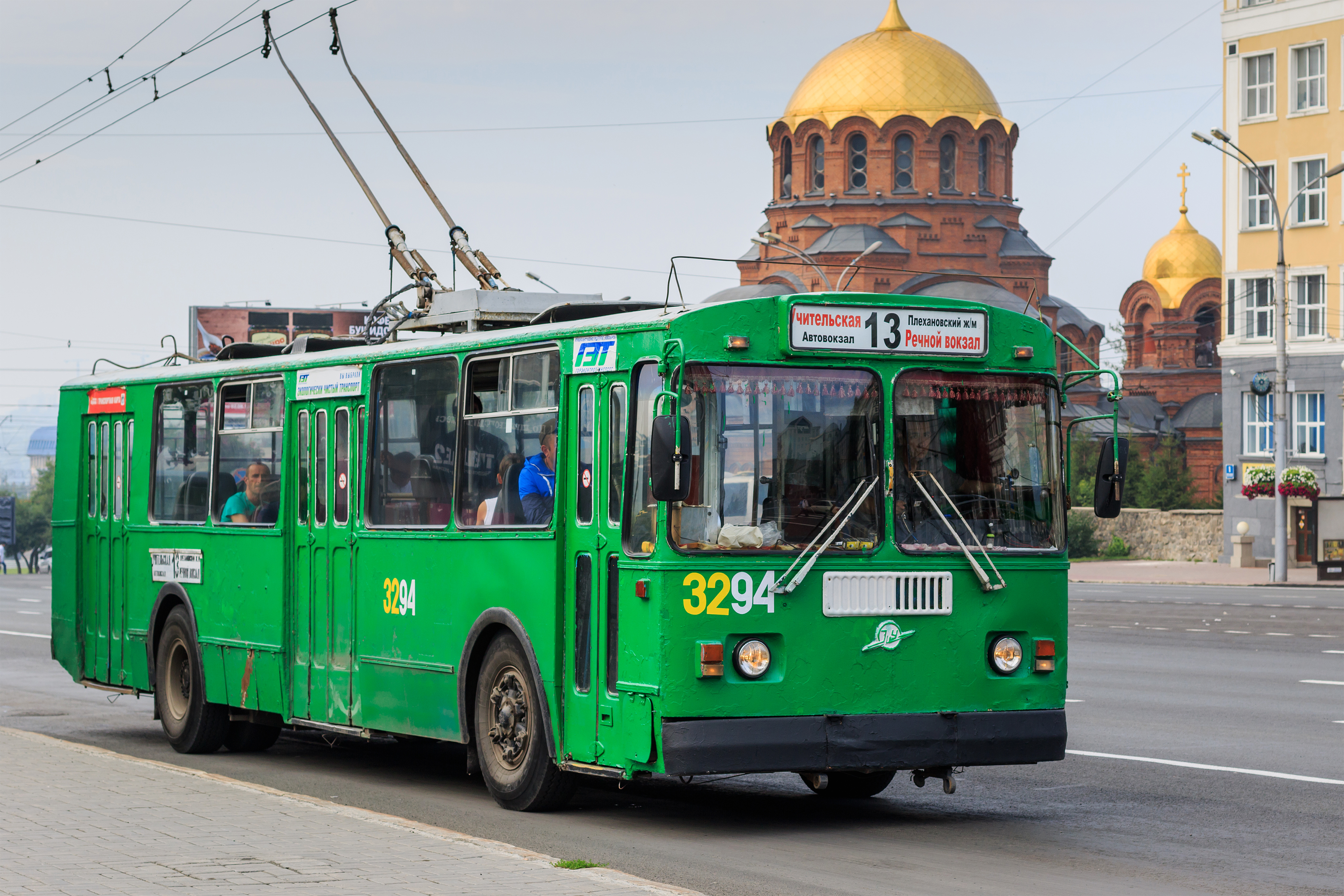 ZiU-9 trolley at Krasny Prospekt in Novosibirsk, Russia